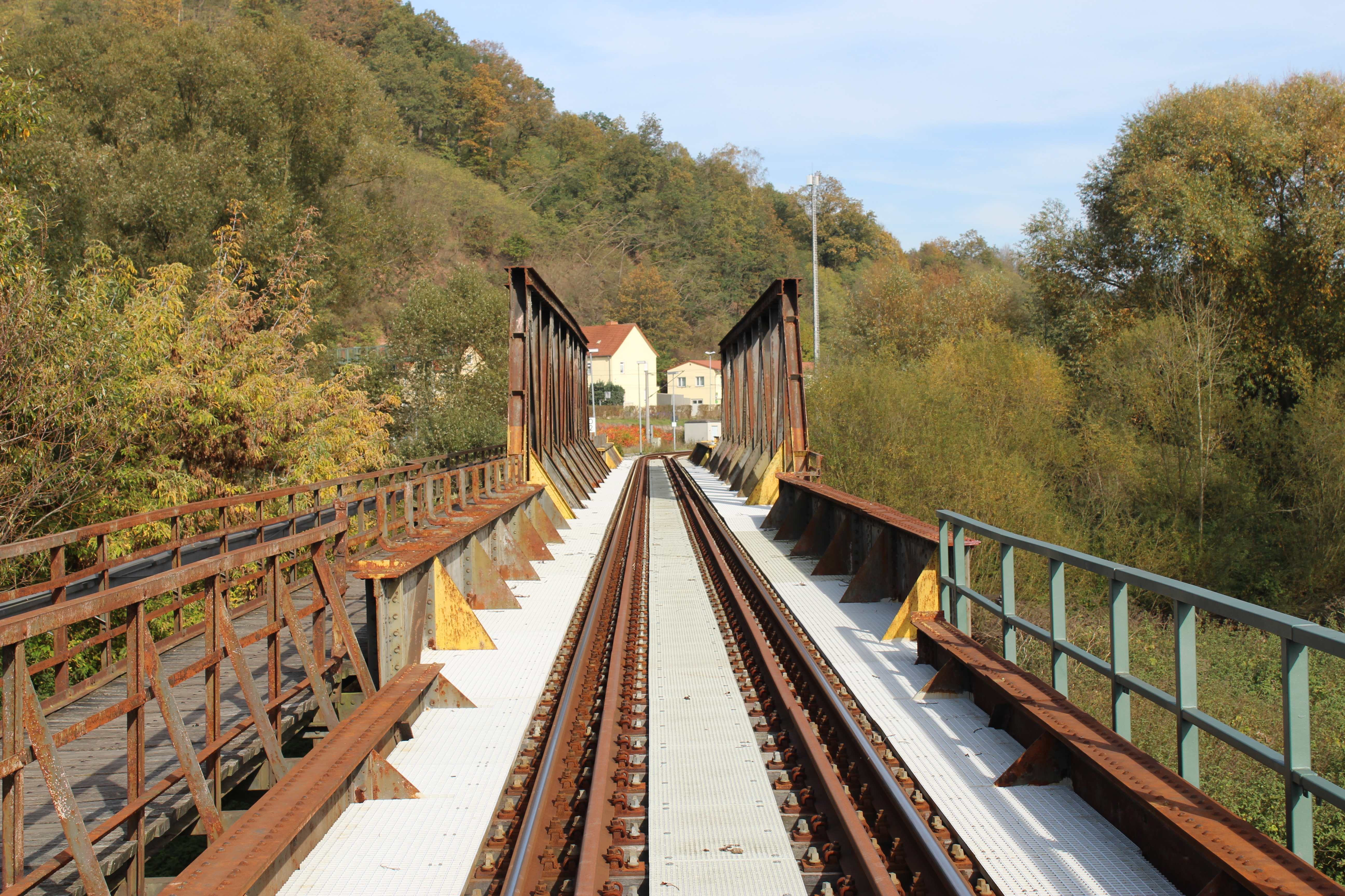 Orlabahn bridge in Orlamünde